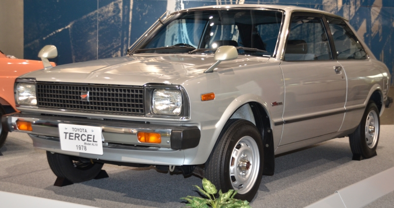 Toyota Tercel AL10, 1500 Hi-Deluxe. Very first Tercel, sold only in Japan.